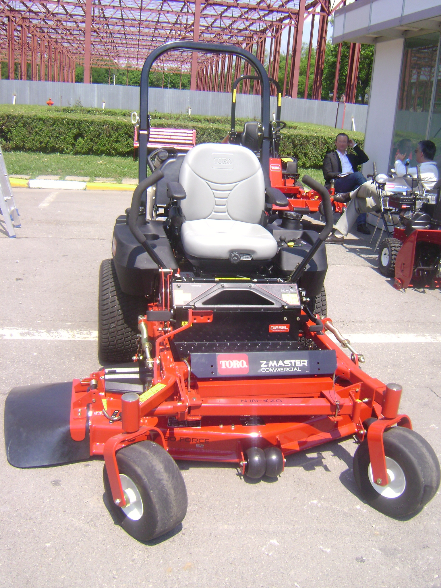 TORO Z Master Commercial Zero-Turn Riders mower seen in Bucharest, Romania at Romexpo during the 2010 Construct Expo Utilaje international exhibition for construction equipment, machinery and hand tools